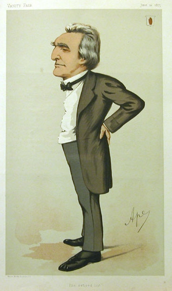 Caricature of Sir John Dalrymple-Hay M.P. (1821-1912). Caption read "The retired list".